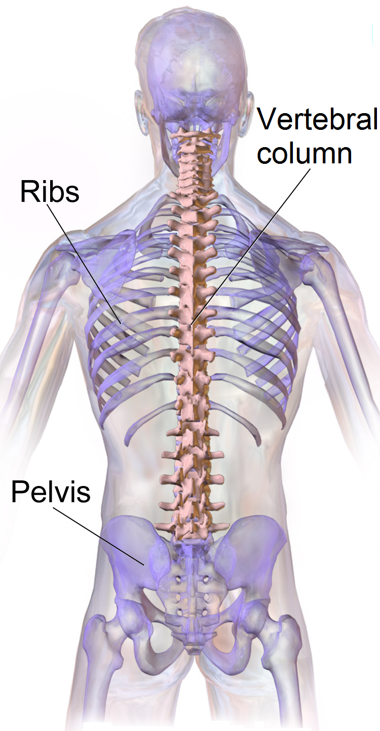 Spine. See a full animation of this medical topic.